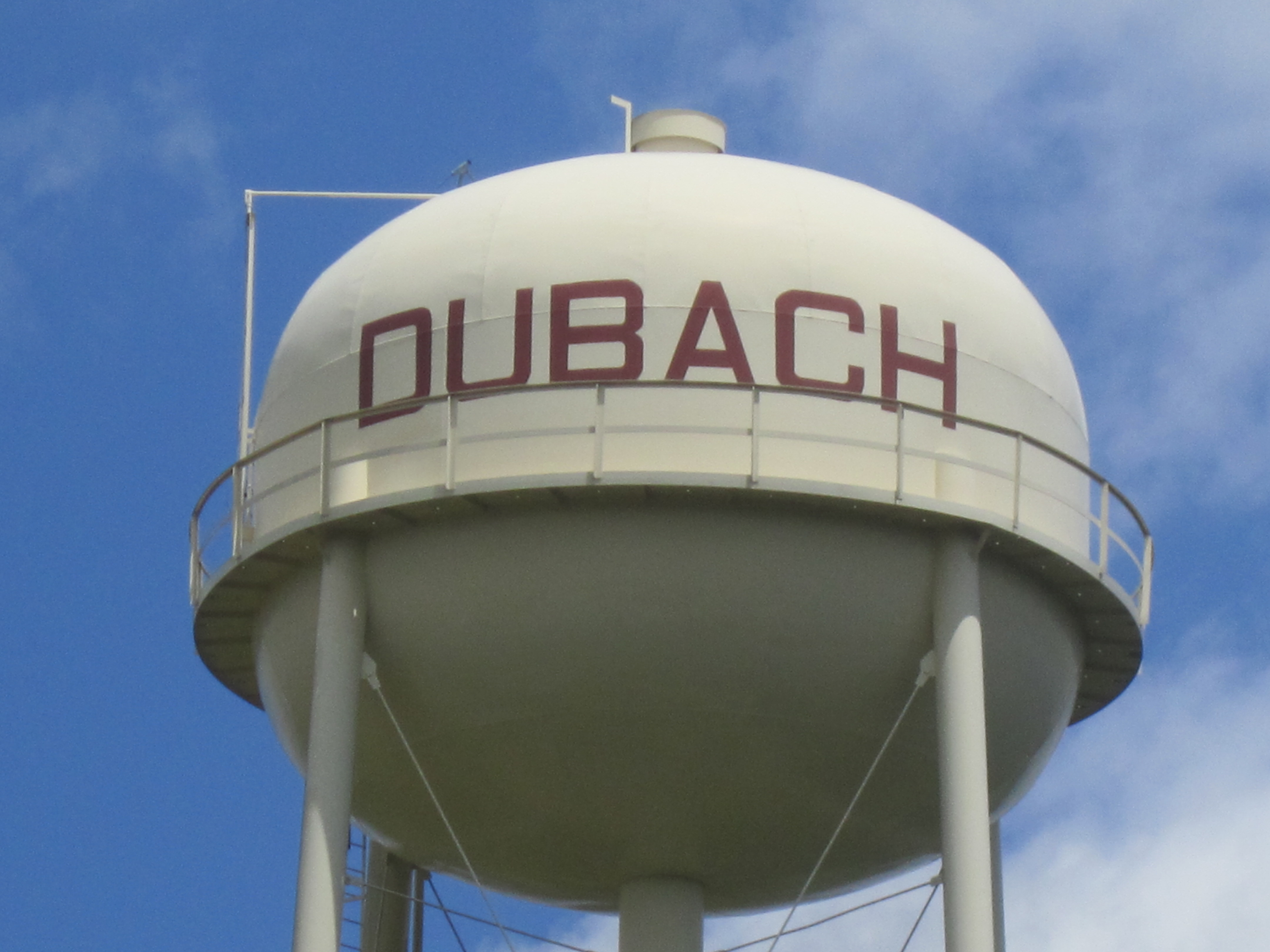 I took photo with Canon camera of water tower in Dubach, LA.